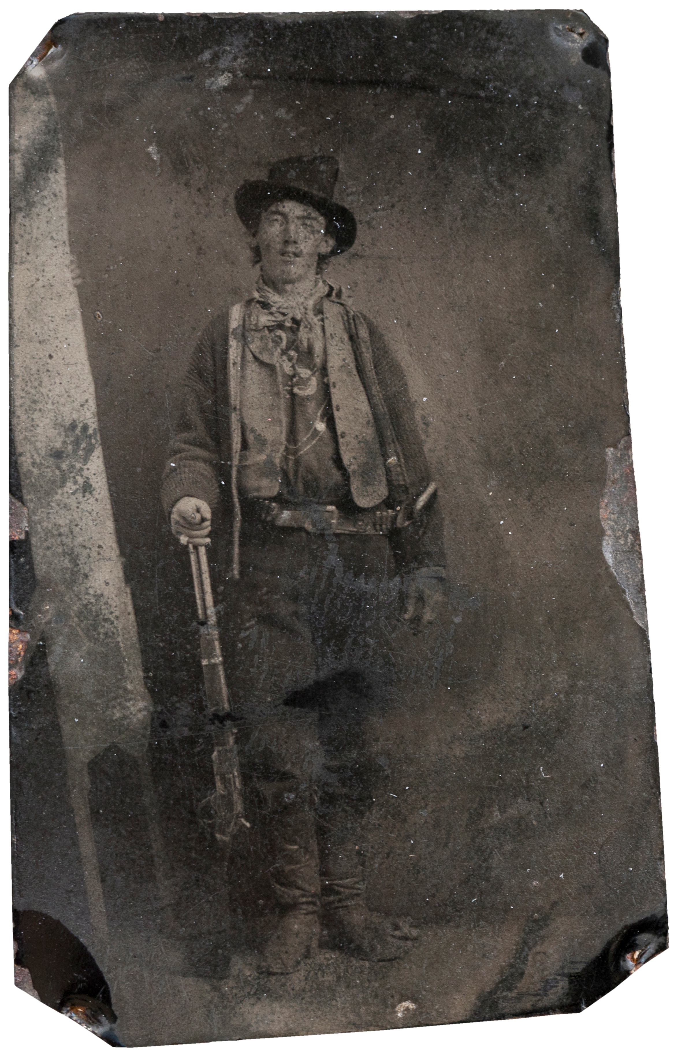 The only surviving authenticated portrait of Billy the Kid. This tintype portrait sold at auction in June 2011 for USD $2,300,000 to William Koch.